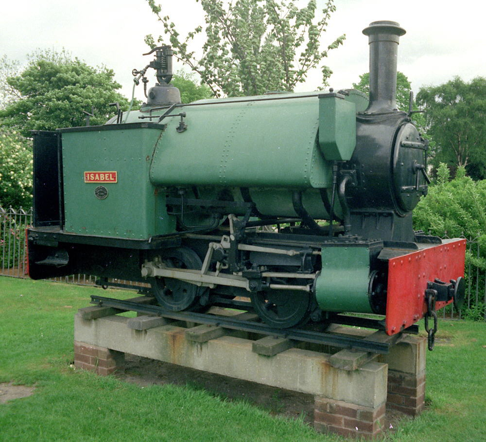 0-4-0 saddle tank Isabel, built in 1897 by W.G. Bagnall Ltd., of Stafford (works number 1491) for the 2ft 0in gauge Cliffe Hill Quarry Railway, in Leicestershire, England. Sold back to her maker in 1952, it is shown here when plinthed in front of Stafford railway station. The inscriptions on the two plaques in front read "This locomotive was built in the year 1897 for the Cliffe Hill Granite Co., Markfield, Leicestershire. It was brought back to Stafford in the year 1953 - Coronation year - after fifty six years service and here set up as a memorial to the three thousand steam locomotives sent out from Castle Engine Works and to the men who designed and built them." and "This locomotive was presented by the English Electric Company Ltd to Stafford Railway Circle in the year 1963. It was presented by the society to the Stafford Borough Council who have made this site available as a resting place for this example of a former industrial product for which Stafford is famous". It is now preserved at the Amerton Railway.